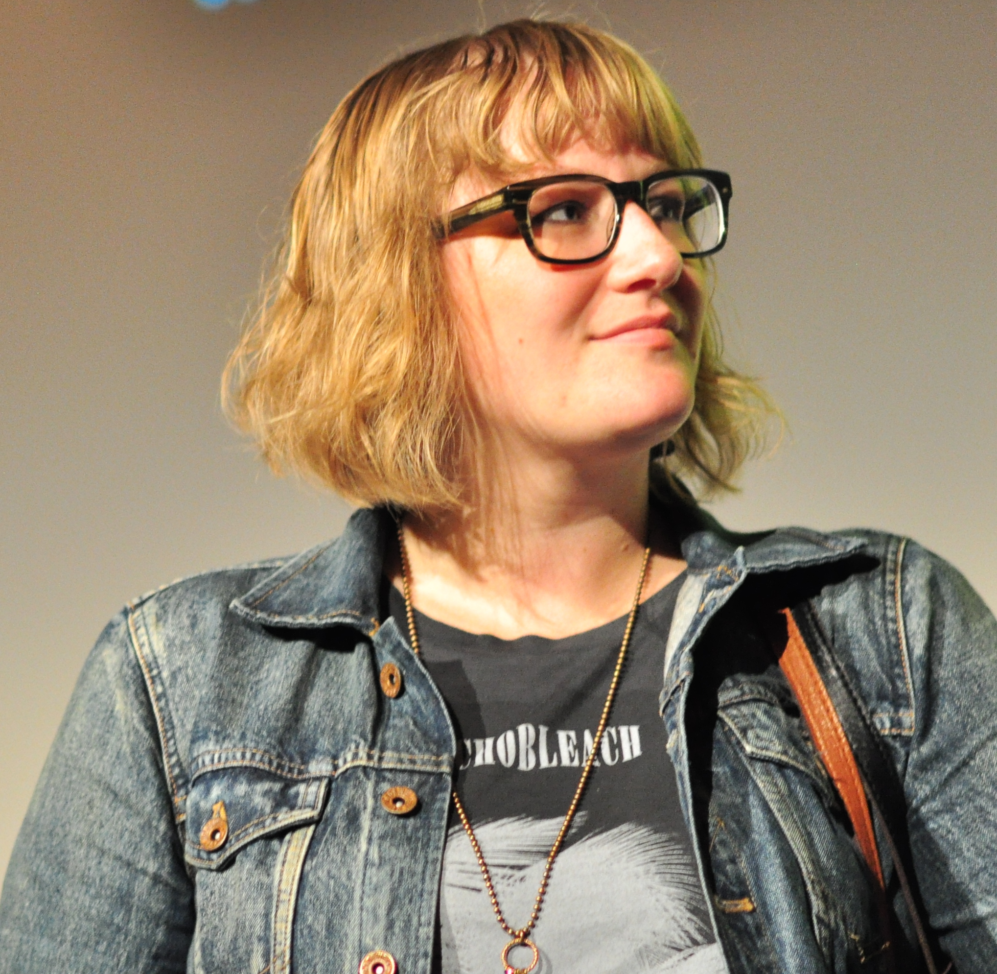 Film producer Mel Eslyn speaking after a showing of Ross Partridge's film Lamb, which she produced.